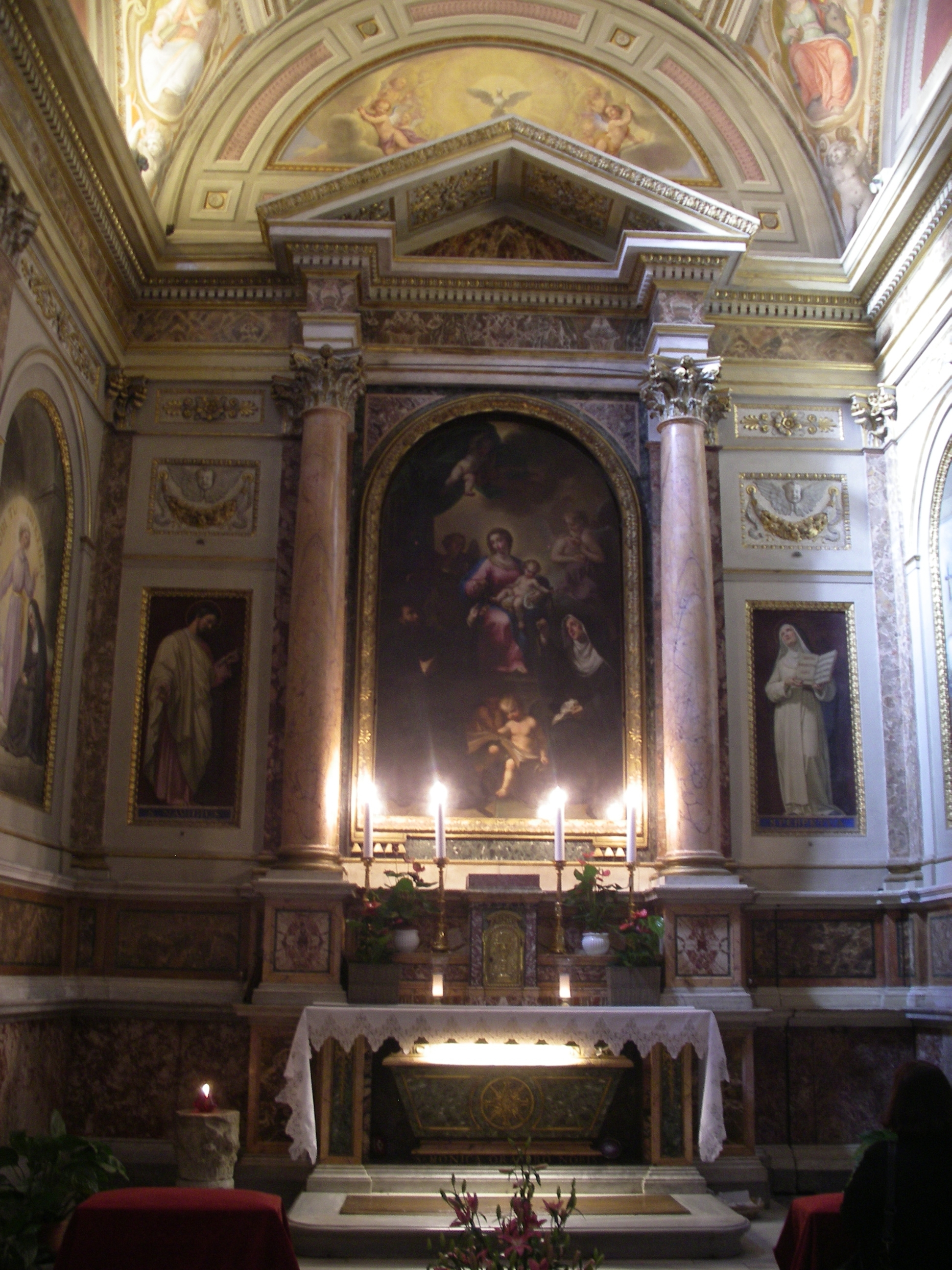 Altar and tomb of Saint Monica of Hippo, at Sant'Agostino in Campo Marzio church, Rome